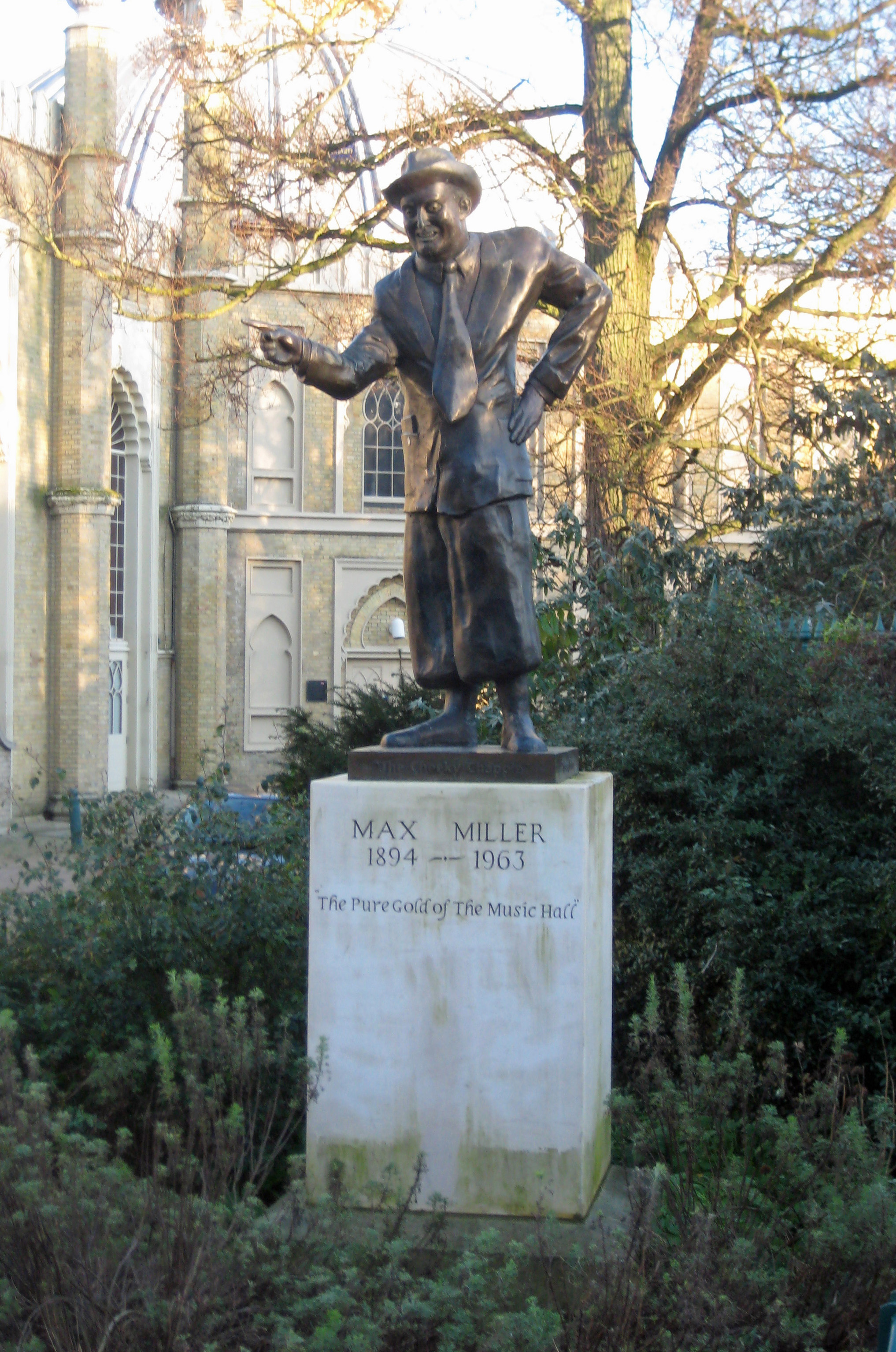 Bronze statue of Max Miller sculpured by Peter Webster and erected in the Pavilion Gardens, New Road, Brighton. The unveiling by Sir Norman Wisdom, Roy Hudd OBE, June Whitfield CBE, George Melly and Councillor Pat Drake Mayor of the City of Brighton & Hove took place on 1st. May 2005. The statue was relocated and a further unveiling ceremony took place with Ken Dodd OBE and Dennis Norden OBE on 12th. August 2007.